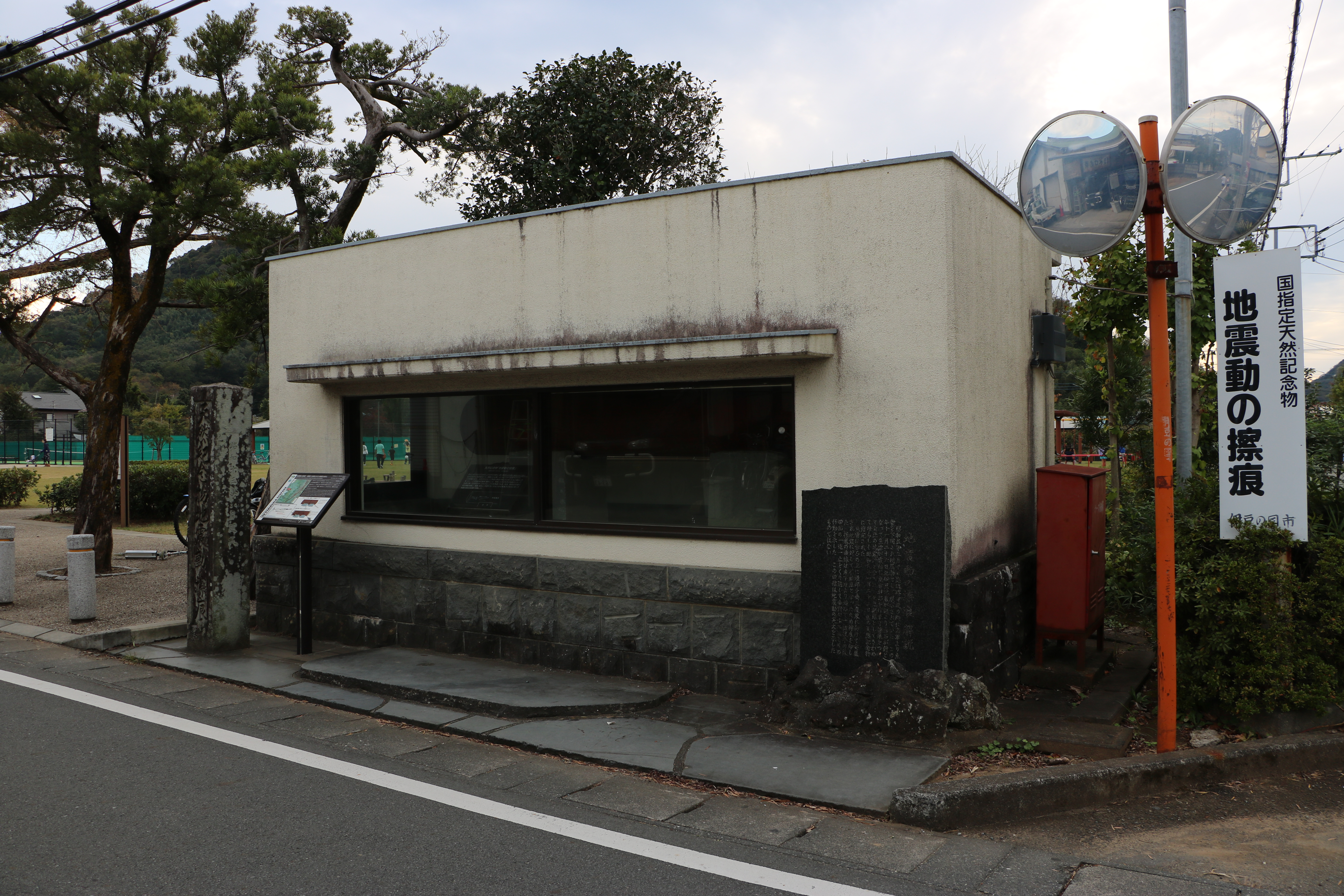 Small facility to store the Jisindo no Sakkon